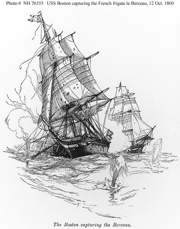 French frigate Berceau and USS Boston figthing, 12 October 1800.